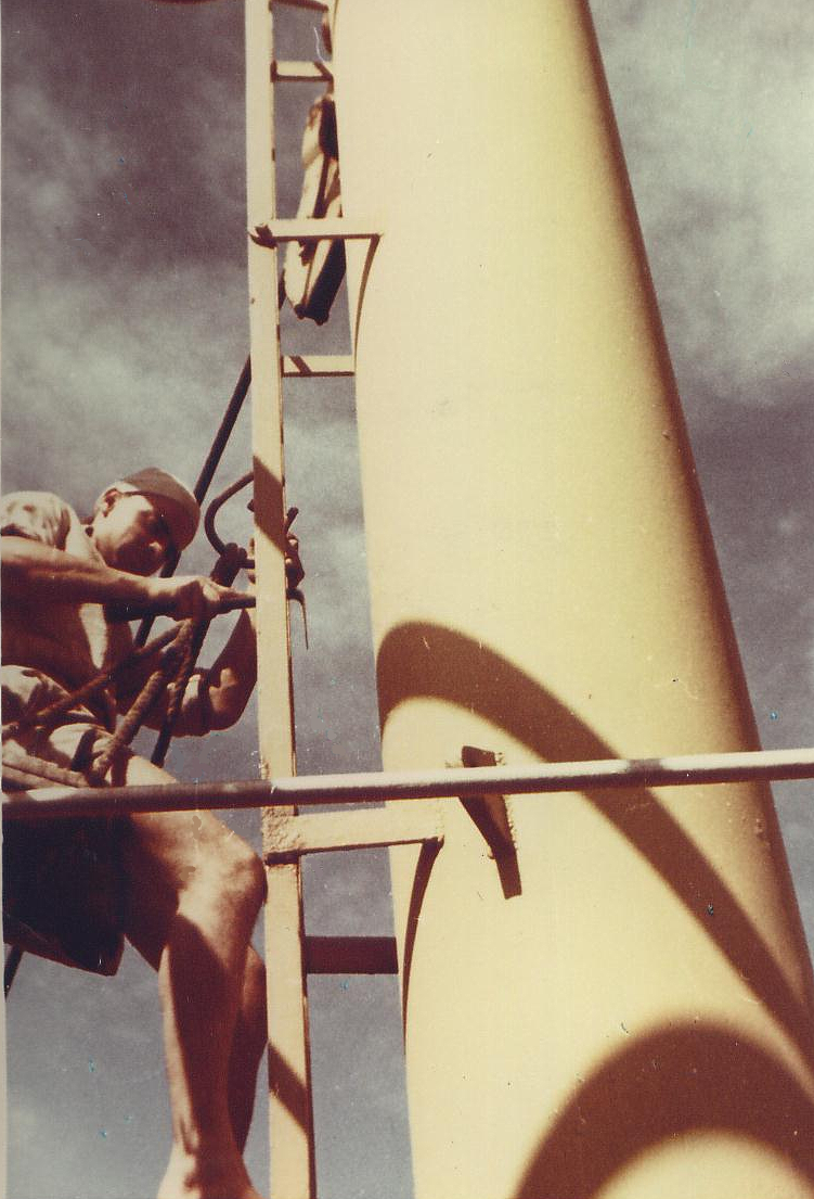 Work on the mast in the bosun's chair - 1957